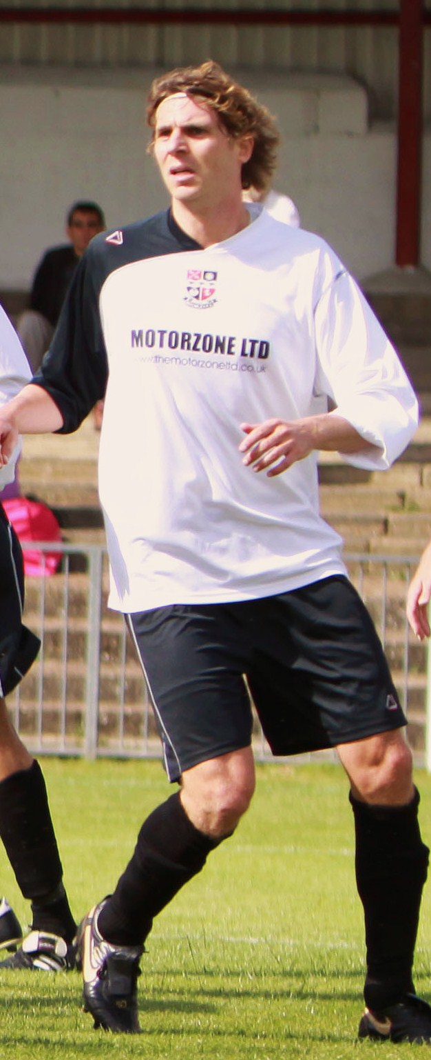 Vincenzo Zanzi playing for Bromley